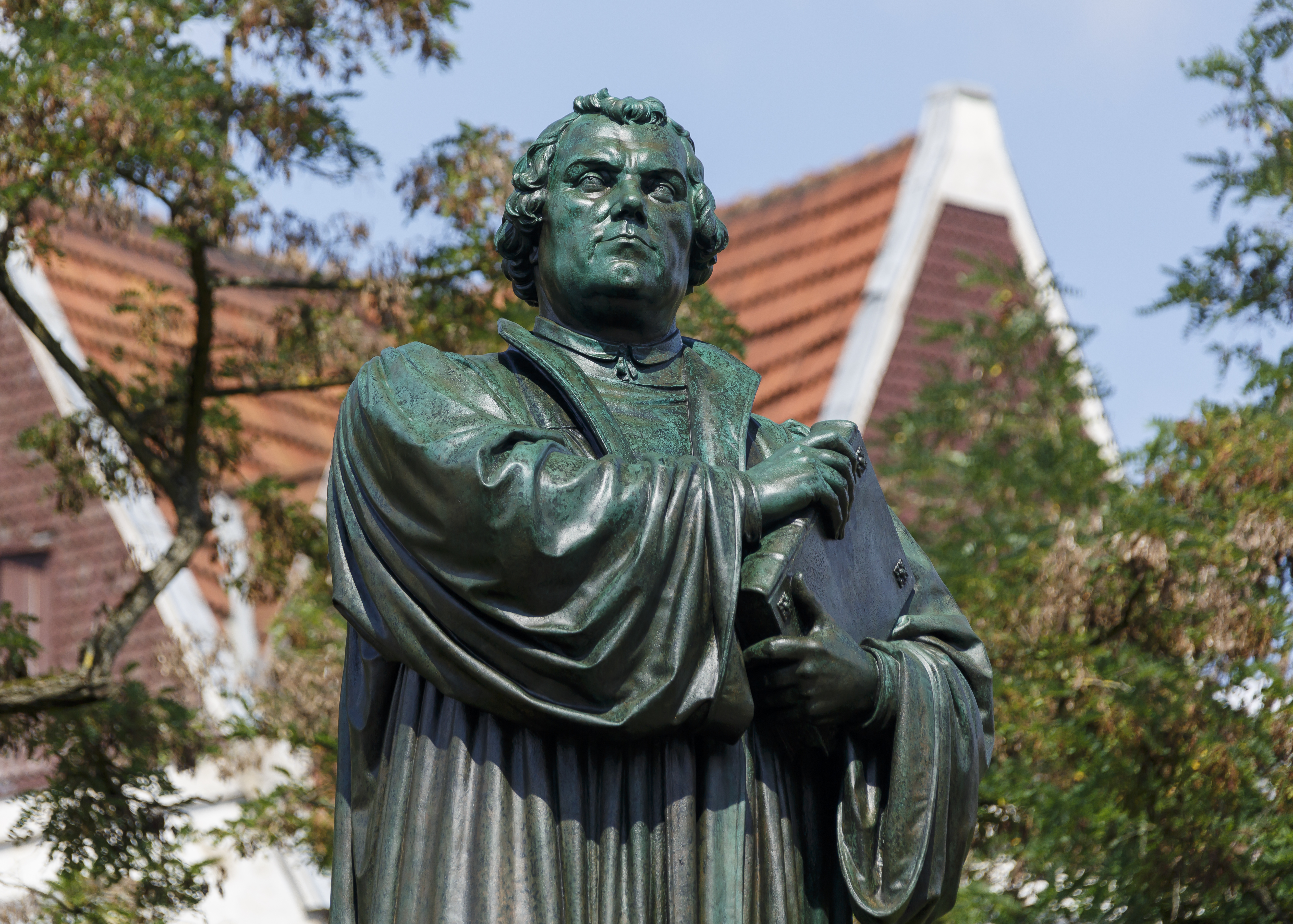 Eisenach, Germany: Detail of Luther memorial